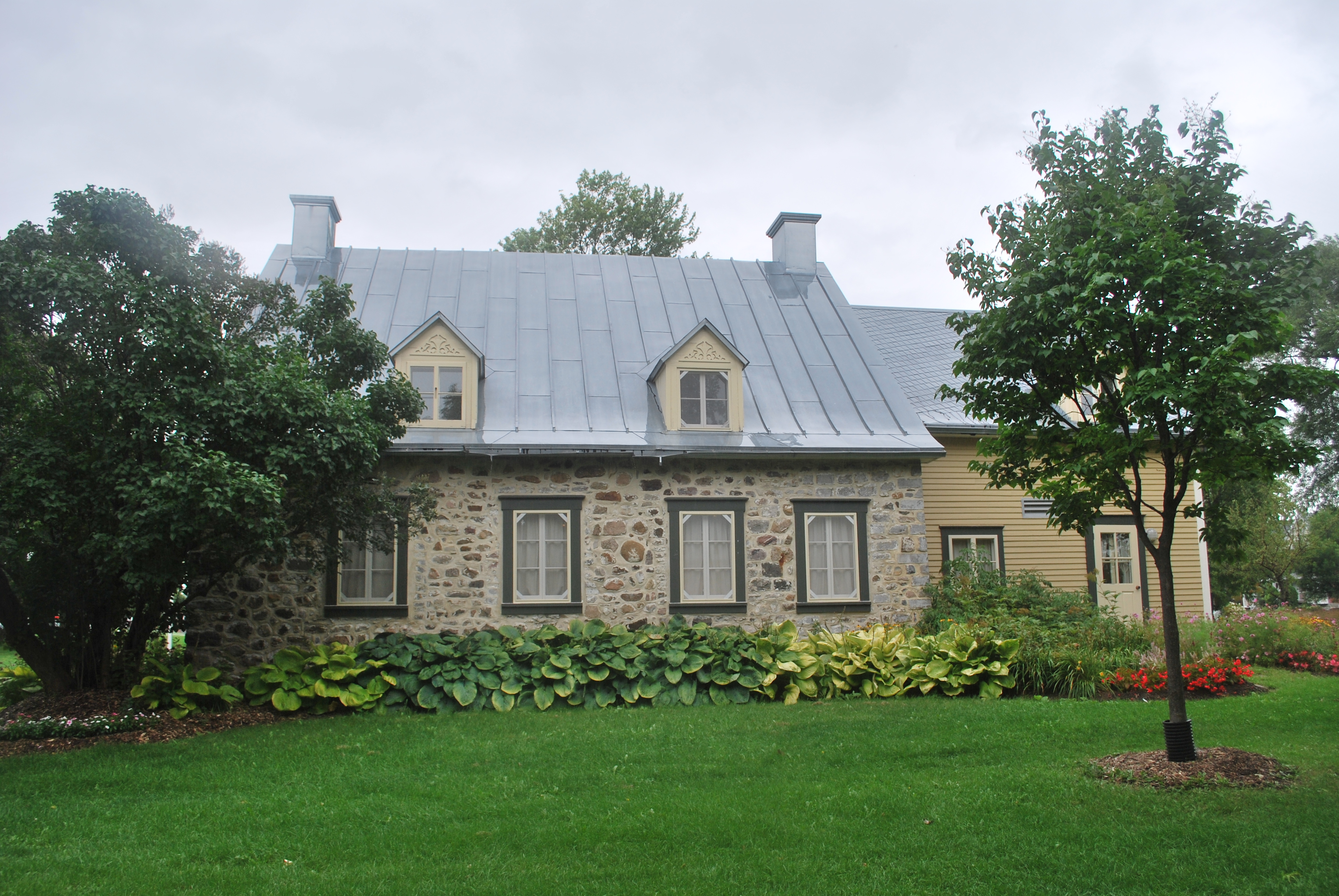 Maison Beaudry in Montréal.